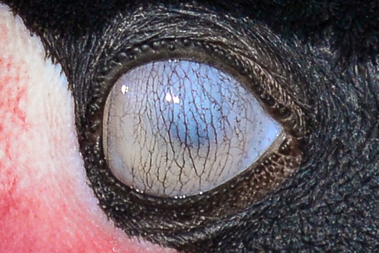 Eye and the nictitating membrane of a Black Crowned Crane (Balearica pavonina). (Weltvogelpark Walsrode (Walsrode Bird Park, Germany))